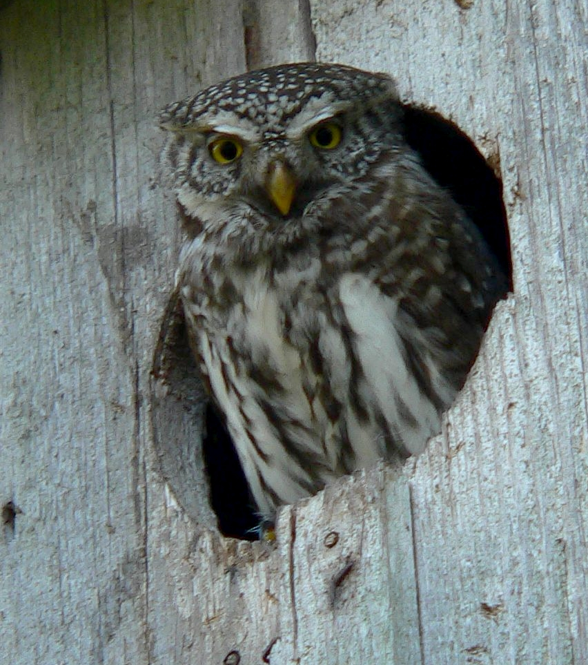 Pygmy owl (Glaucidium passerinum), Adult in nest box used as food store; Kauhava, western Finland.